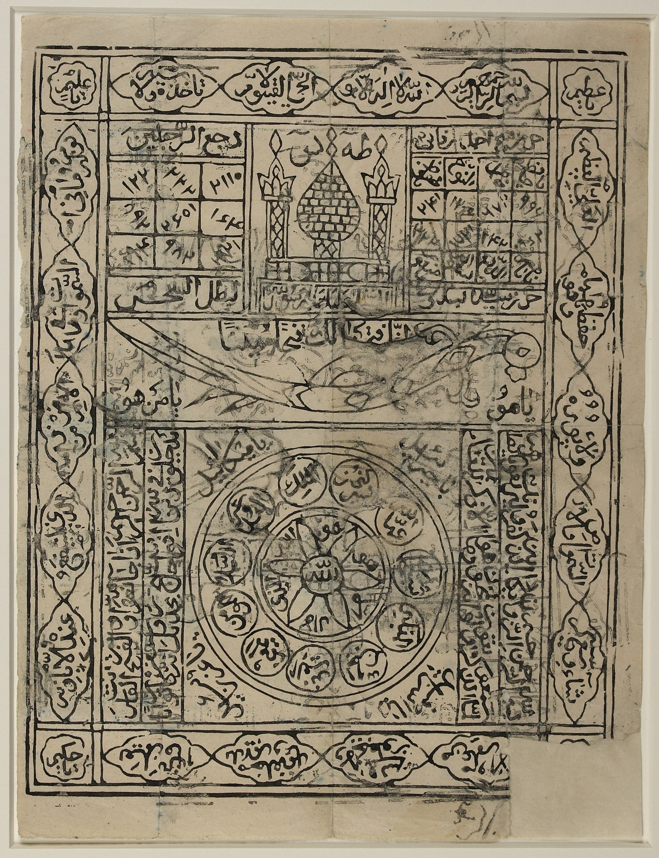 This stamped amulet was probably made for a Shi'i patron in 19th-century India. Executed on a very thin white paper, the amulet comprises a number of magic squares, Qur'anic verses, and divine or holy names all intended to bring good luck or provide protection to its owner. There is also a depiction of Ali's two pointed sword (Zulfikar). In the outer rectangular frame appears ayat al-kursi (the Throne Verse), verse 255 of the 2nd chapter of the Qur'an entitled Surat al-Baqarah (The Cow). It is often found on talismanic objects.